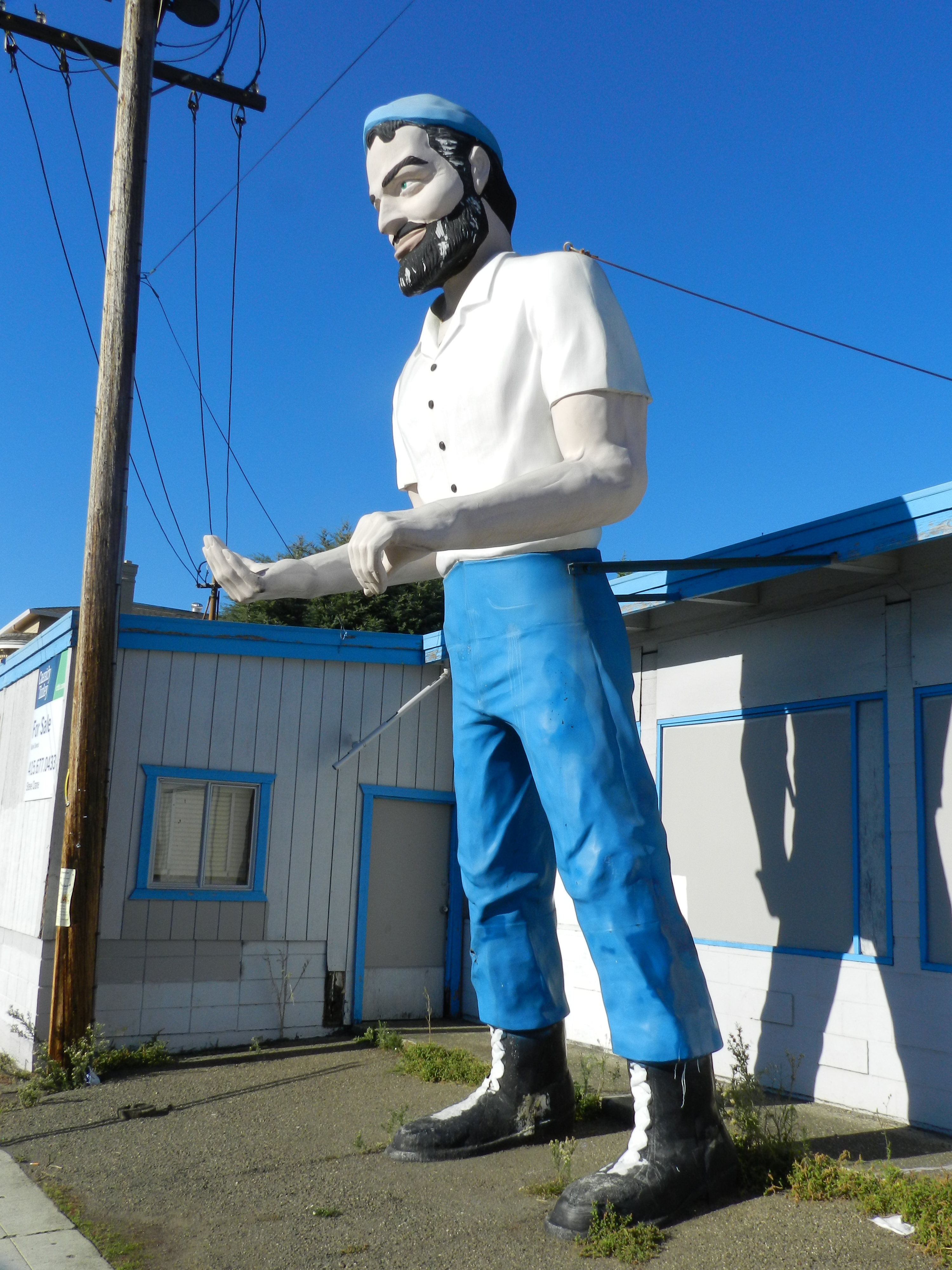 advertising statue, nicknamed Big Mike, photographed on Mission Blvd in downtown Hayward, California. Statue removed in late 2011. Fully restored and re-erected at Bell Plastics on National Ave. in Hayward, March 2013.